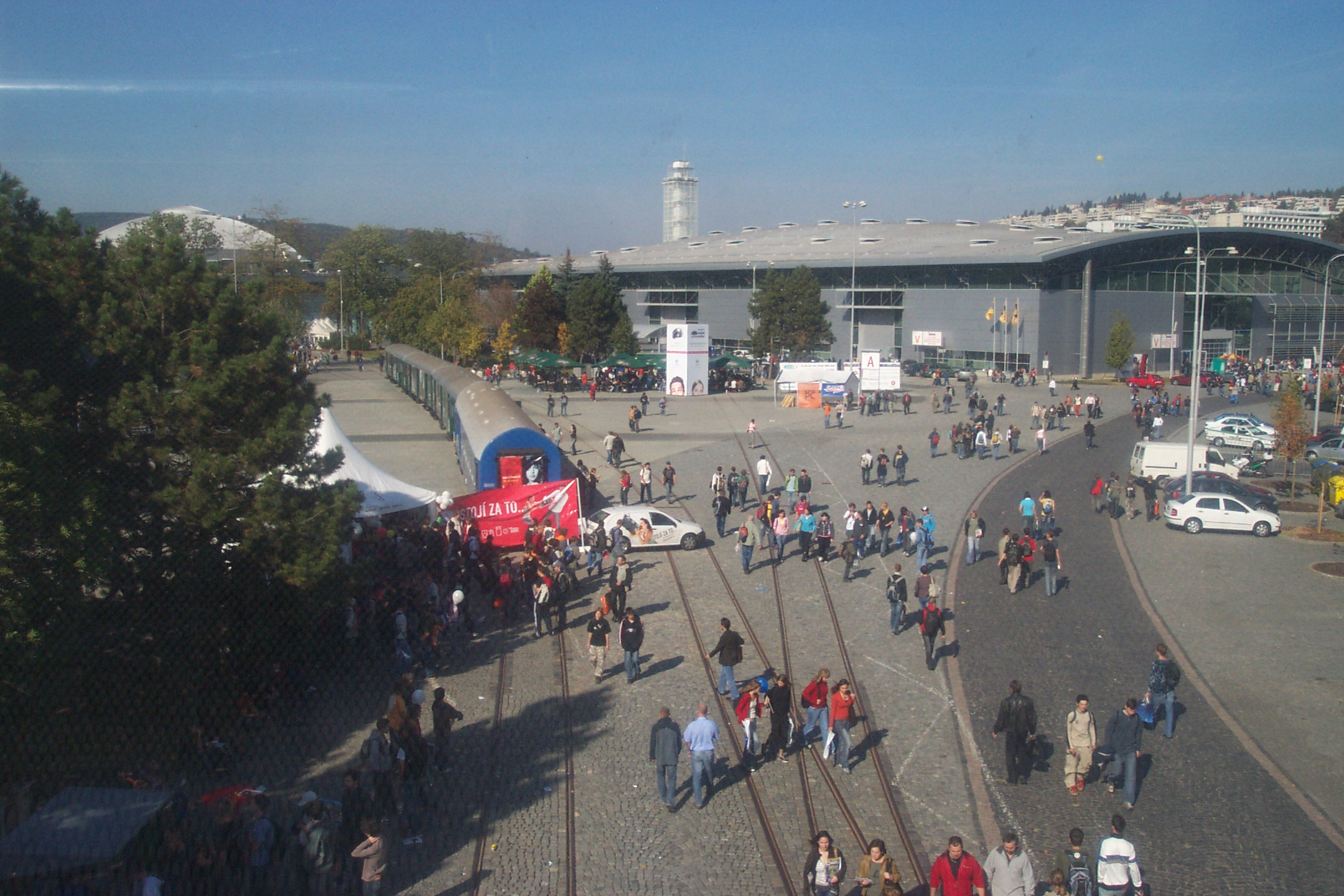 Brno, Invex exhibition - Výstava Invex v Brně